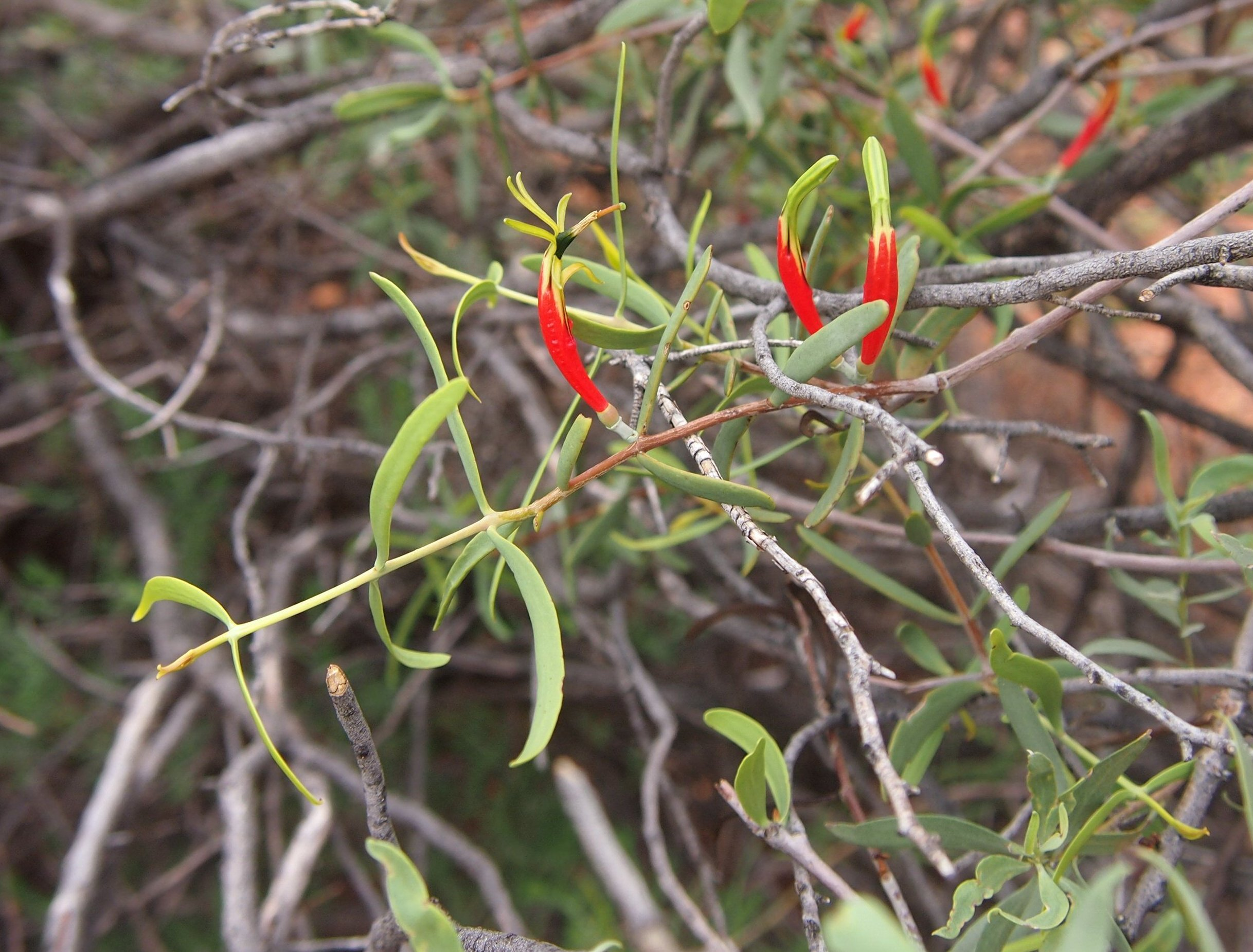 Lysiana exocarpi